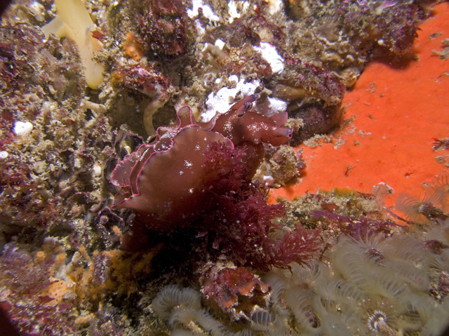 Found at Pyramid Rock in False Bay. Length 5cm. Depth 10m